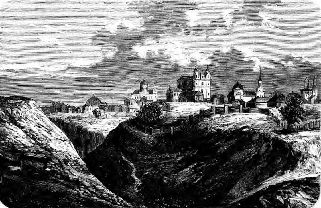 Amścisłaŭ, 19th century